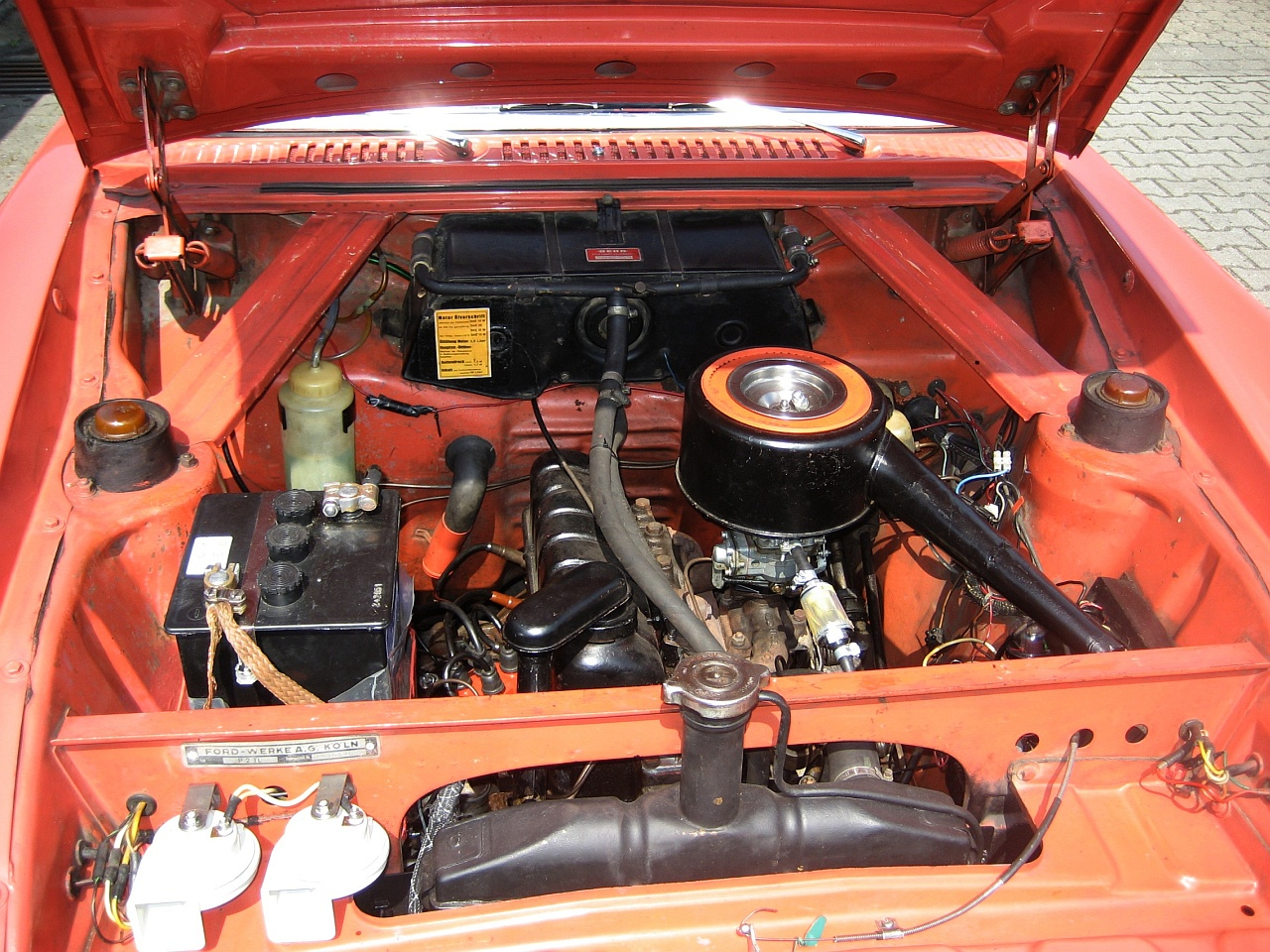 FORD Taunus 17M P2(TL) deLuxe Two door 1958 Engine